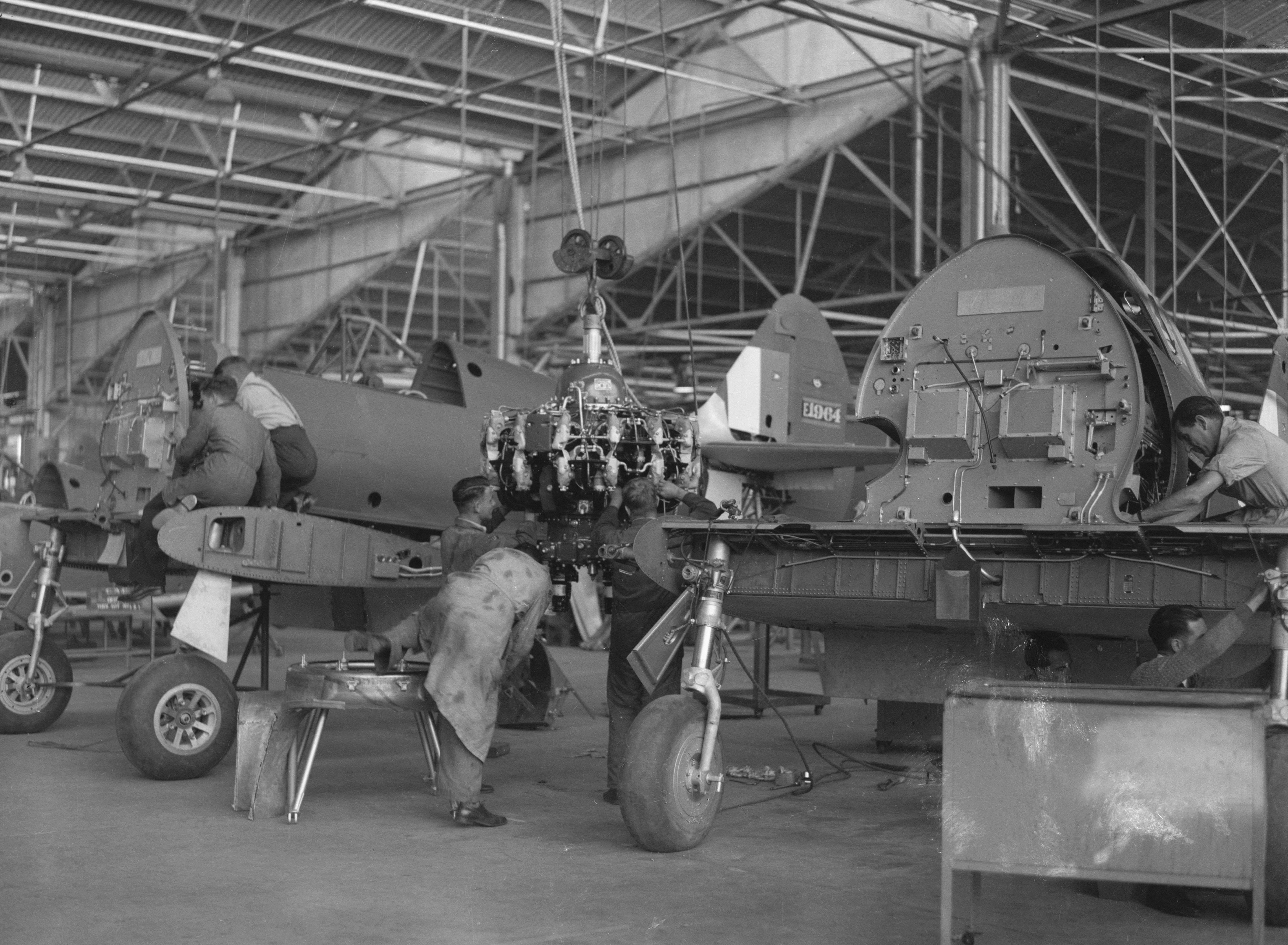 Original caption: "High production rate of Australian interceptor aircraft is maintained by the steady inflow of lend-lease Whitney twin row engines. This fast climbing, hard hitting addition to the Allied air strength being made in an Australian factory and includes in its structure Australian steel, Canadian aluminum and American engines."